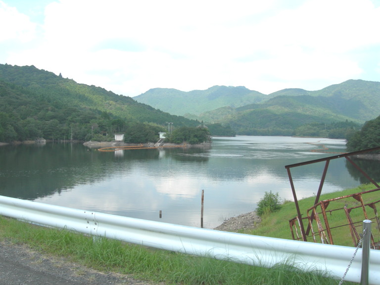 Kamiji-dam at Shima city Mie Pref. Japan.